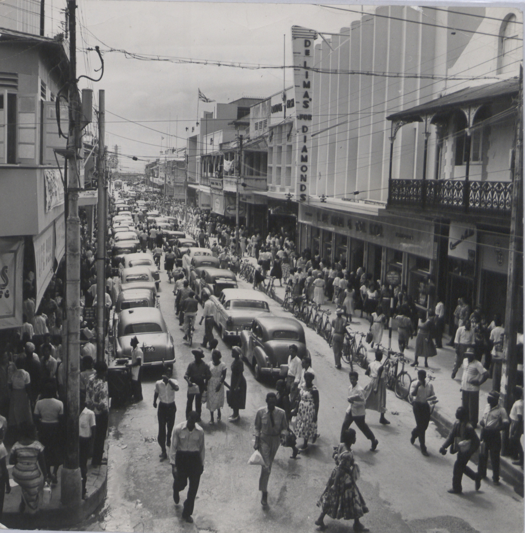 Frederick Street, the main shopping street of Port-of-Spain, Trinidad, 1950